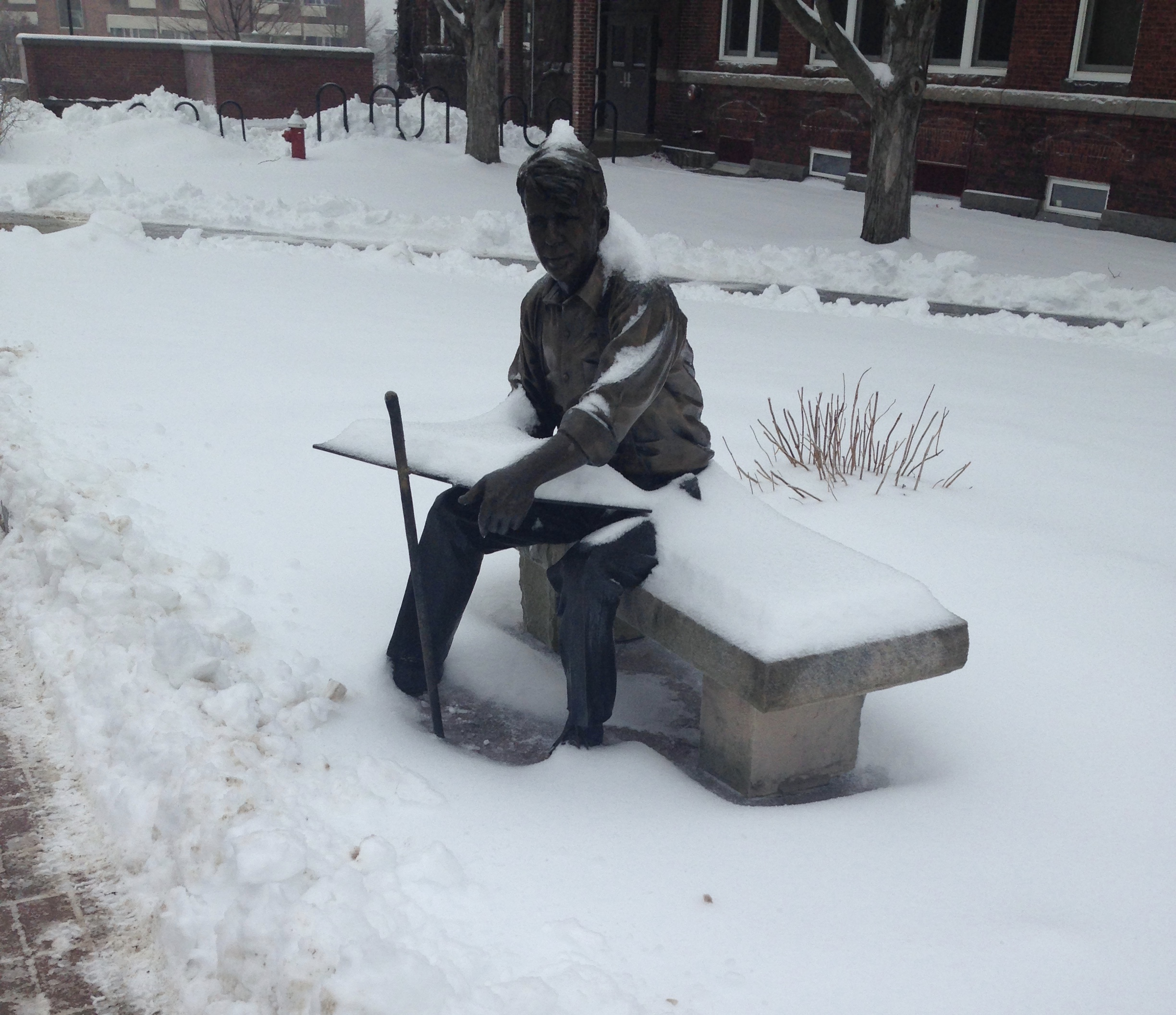 This statue of Robert Frost sits in the central quad of Plymouth State University's campus, where Robert Frost briefly lectured. The photo was taken after a heavy season snow in northern New Hampshire.